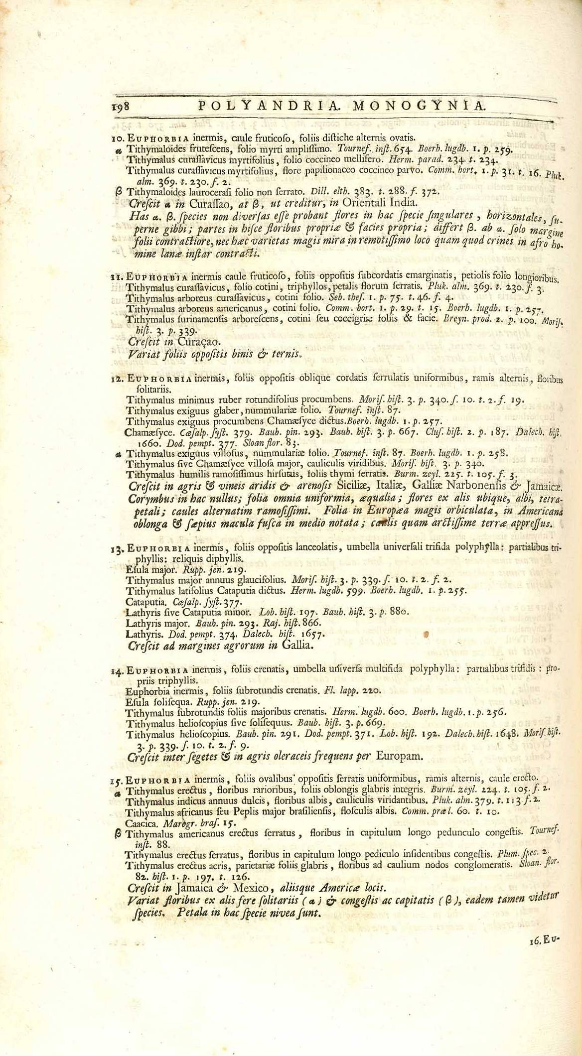 Page 198 from Linnaeus, C. (1738), Hortus Cliffortianus, with a number of Euphorbia species listed, named and described by Linnaeus, with references to earlier works by other authors.